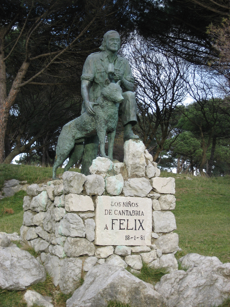 Statue of Félix Rodríguez de la Fuente in Santander (Spain)